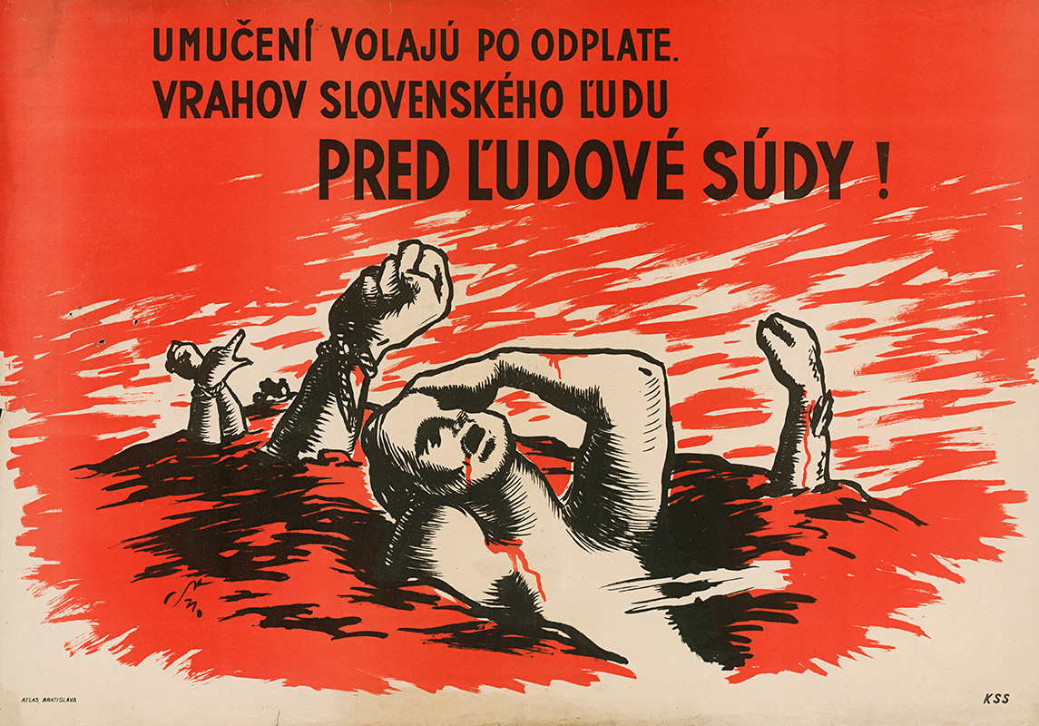 Propaganda paper of the Slovak National Council within Czechoslovakia, calling for war criminals to be judged by the National courts.